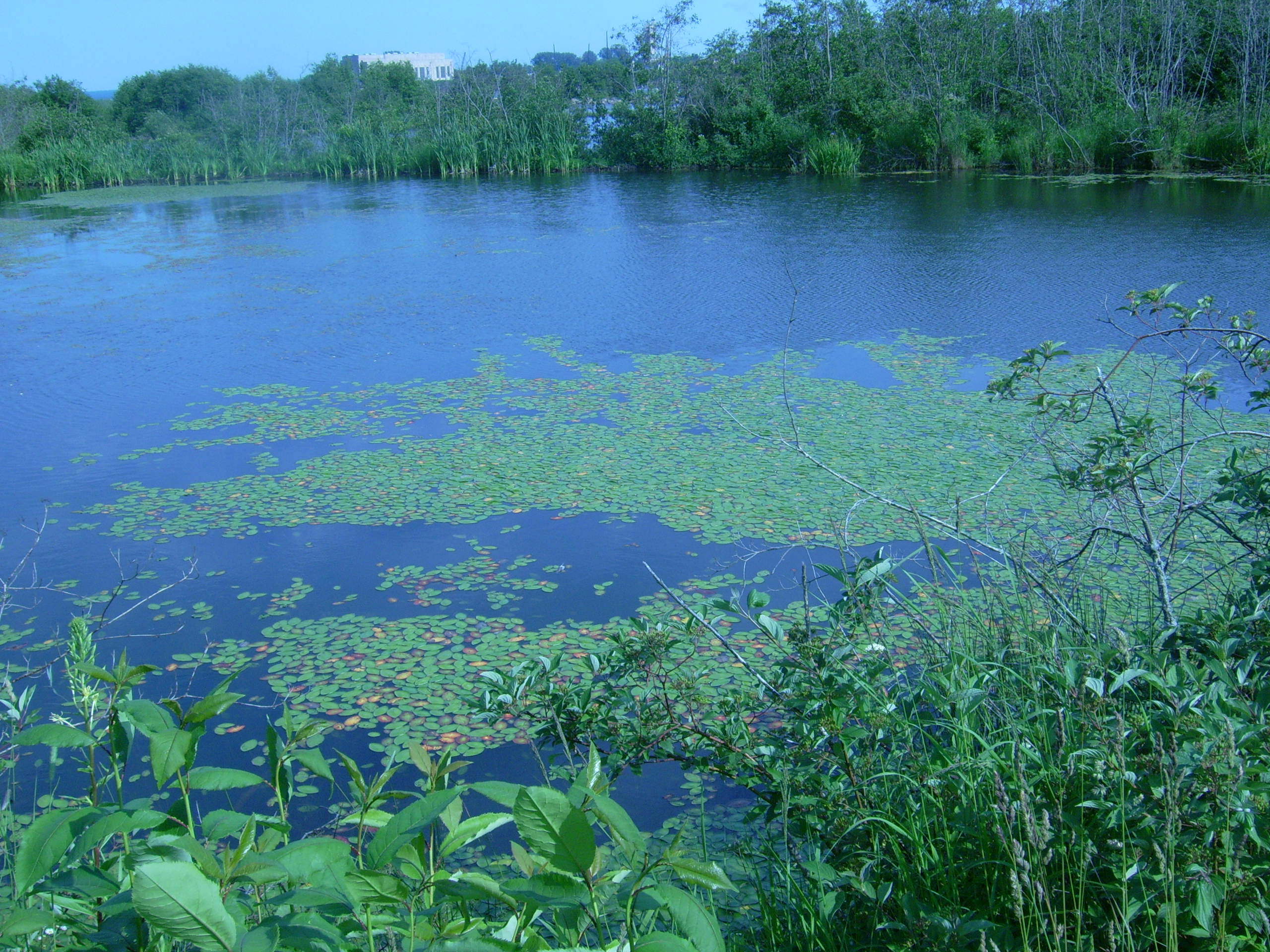 Ponds along Attikamek Trail at the Sault Ste. Marie Canal National Historic Site of Canada.